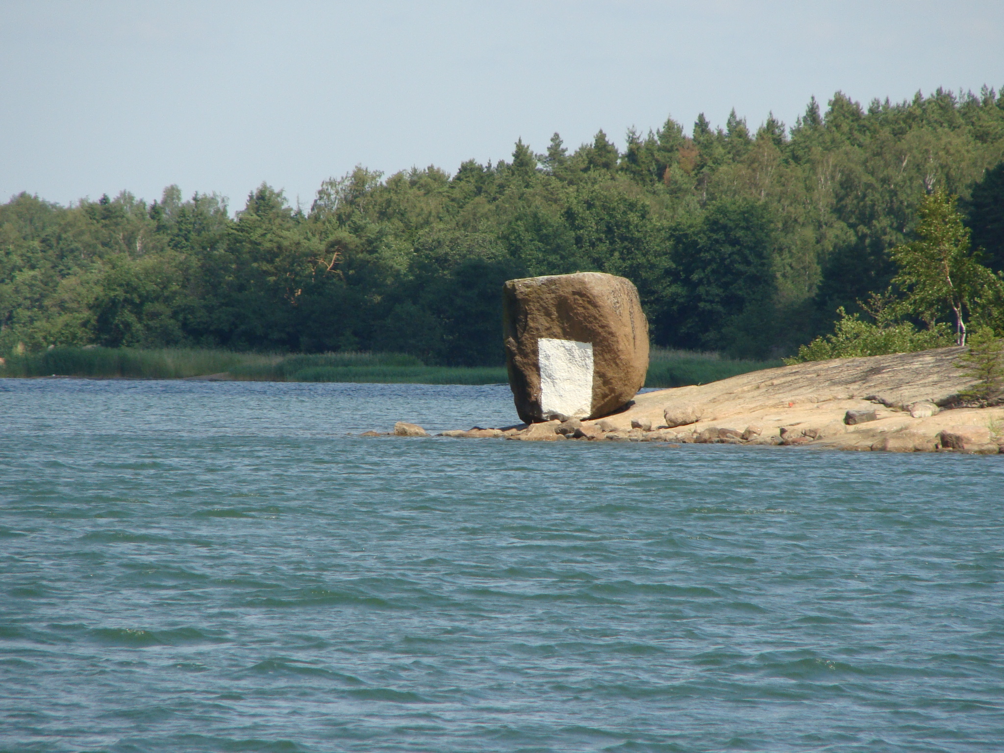 A day beacon (aid to navigation) painted on an erratic boulder on the island Iso Koiluoto in the Archipelago Sea in Finland.